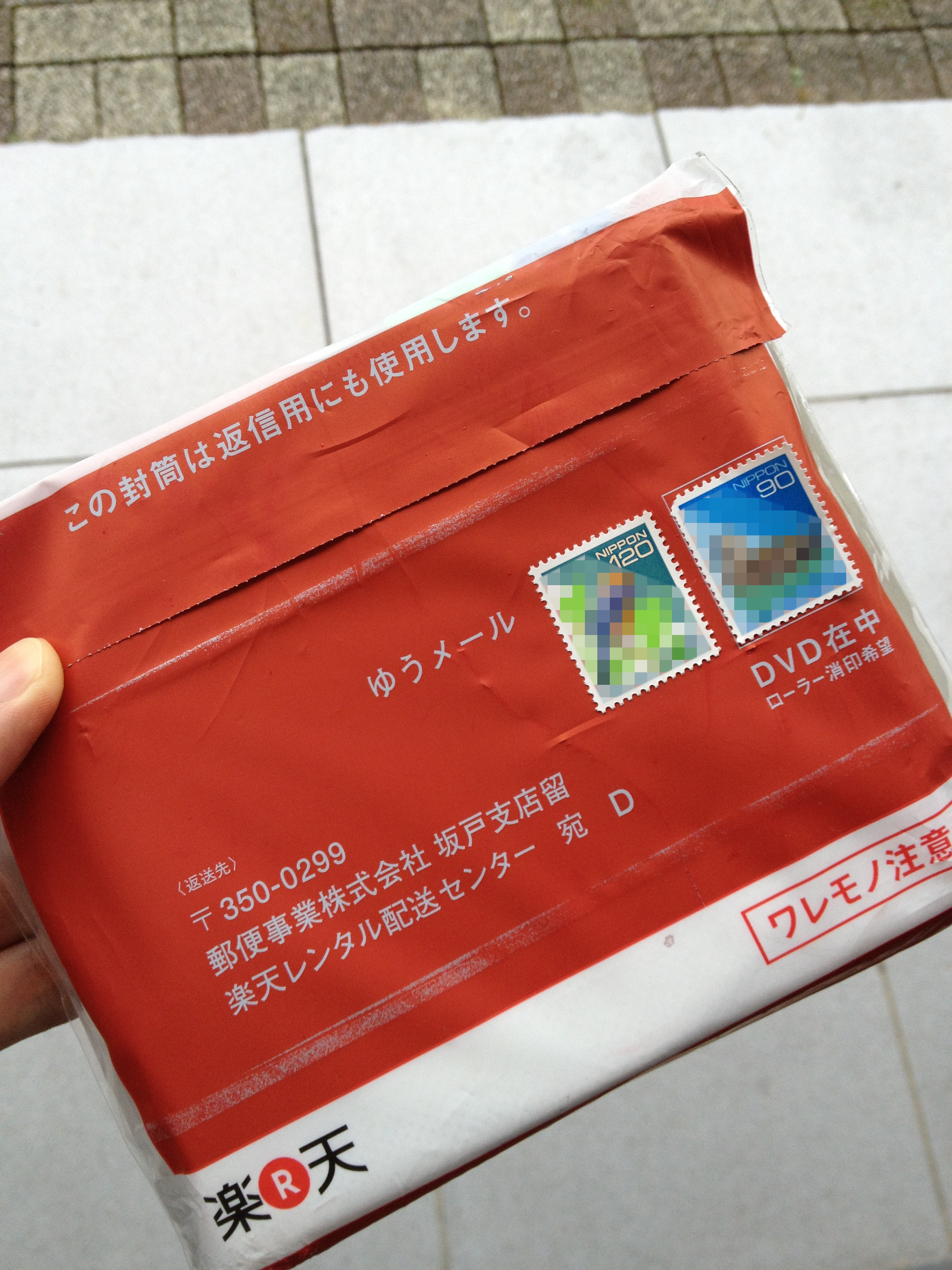 Rakuten Rental. A small packet for a DVD franked with two Japanese stamps